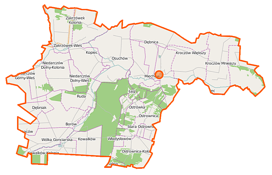 Map of Gmina Kazanów, Poland This map of Kazanów (gmina) was created from OpenStreetMap project data, collected by the community. This map may be incomplete, and may contain errors. Don't rely solely on it for navigation. Border coordinates51.317321.3197←↕→21.569651.2166